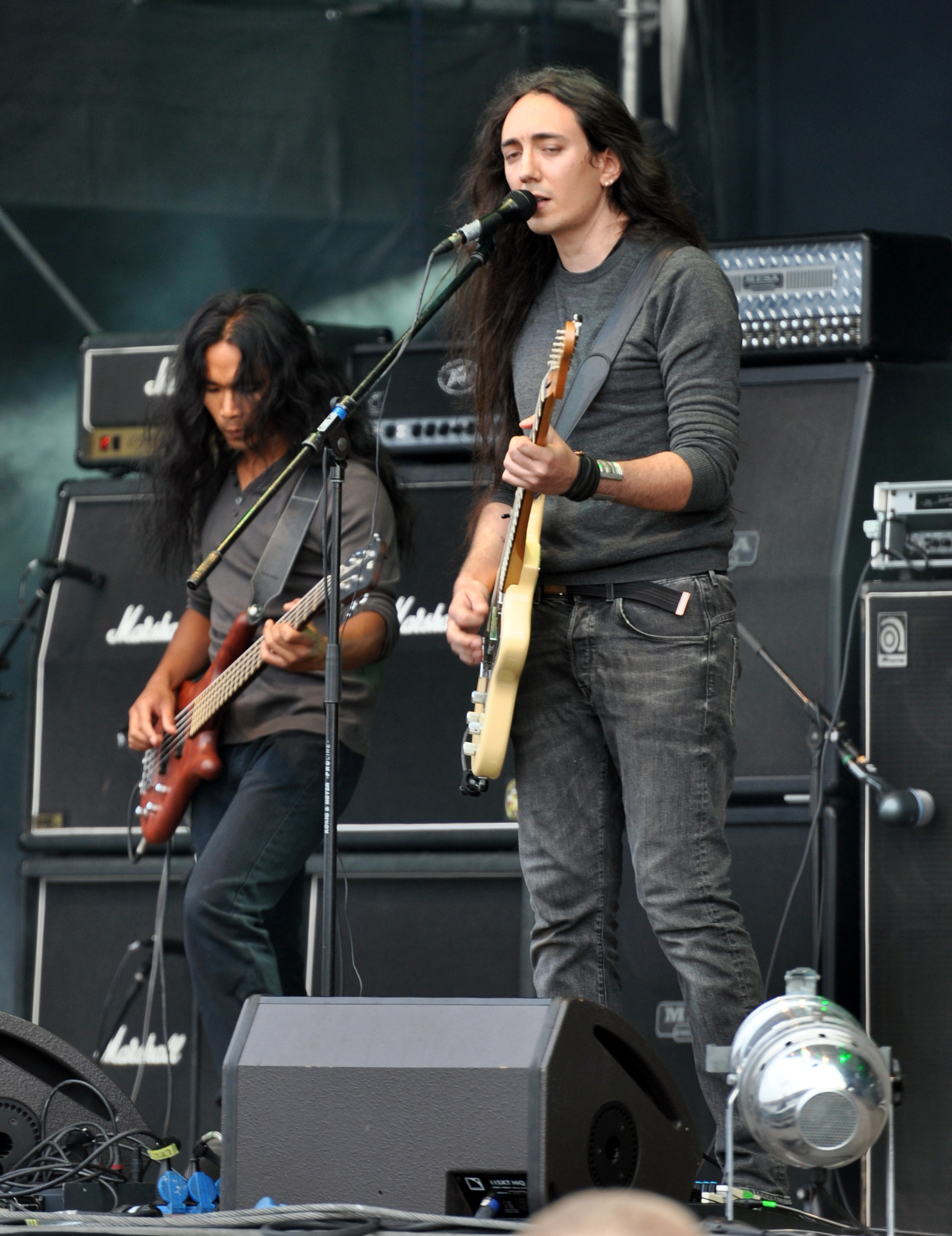 Alcest at Party.San Metal Open Air 2013